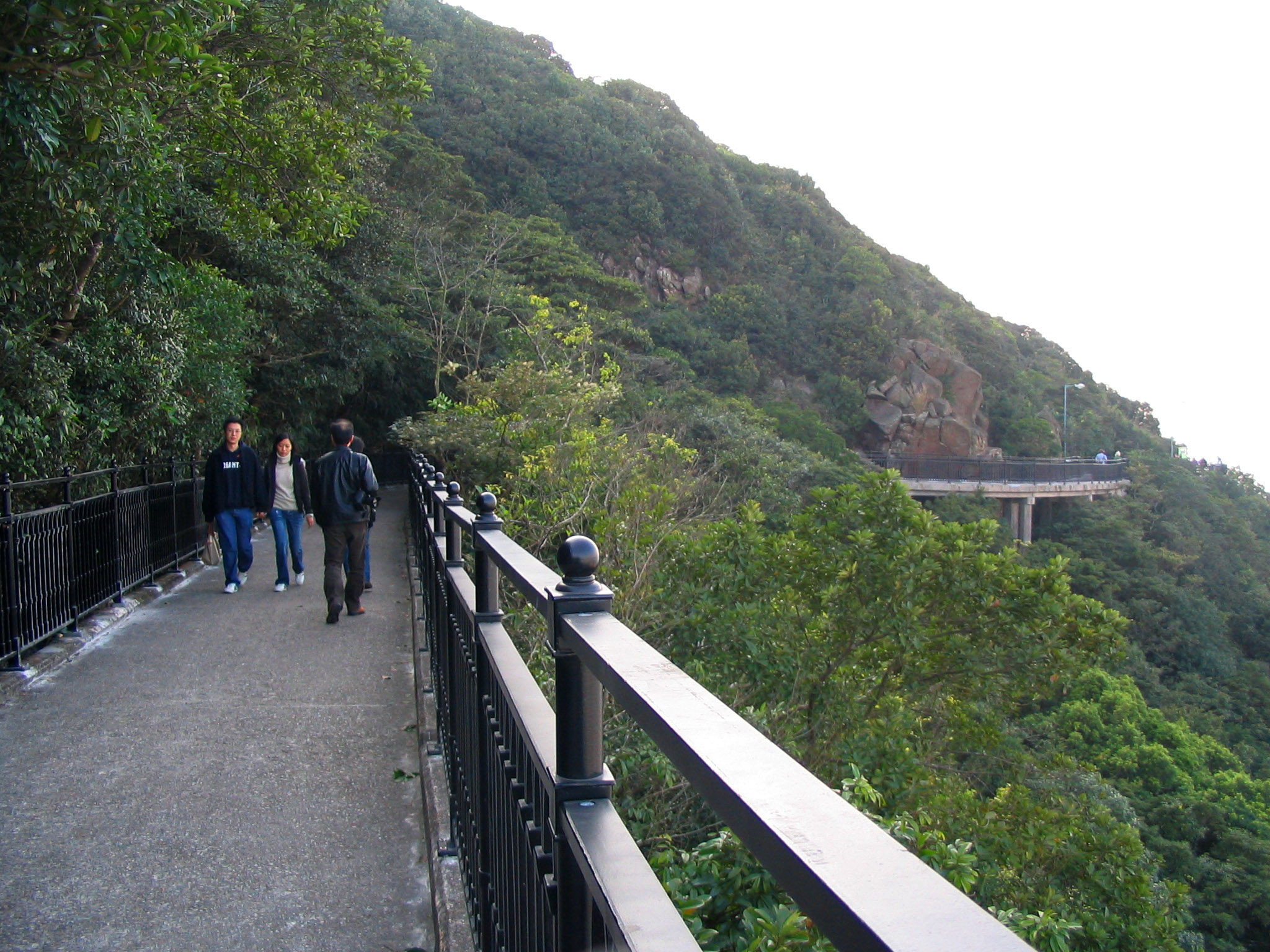 Taken by user user:Ngchikit on 28 Jan 2007.